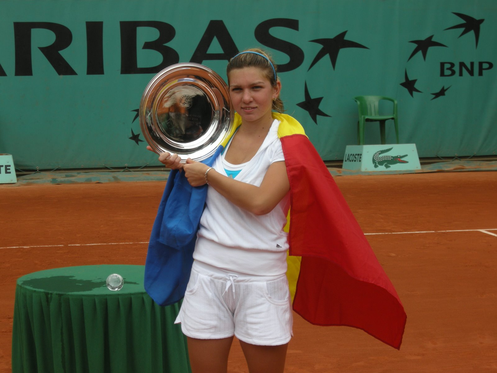 Simona Halep with the French Open Junior Championship